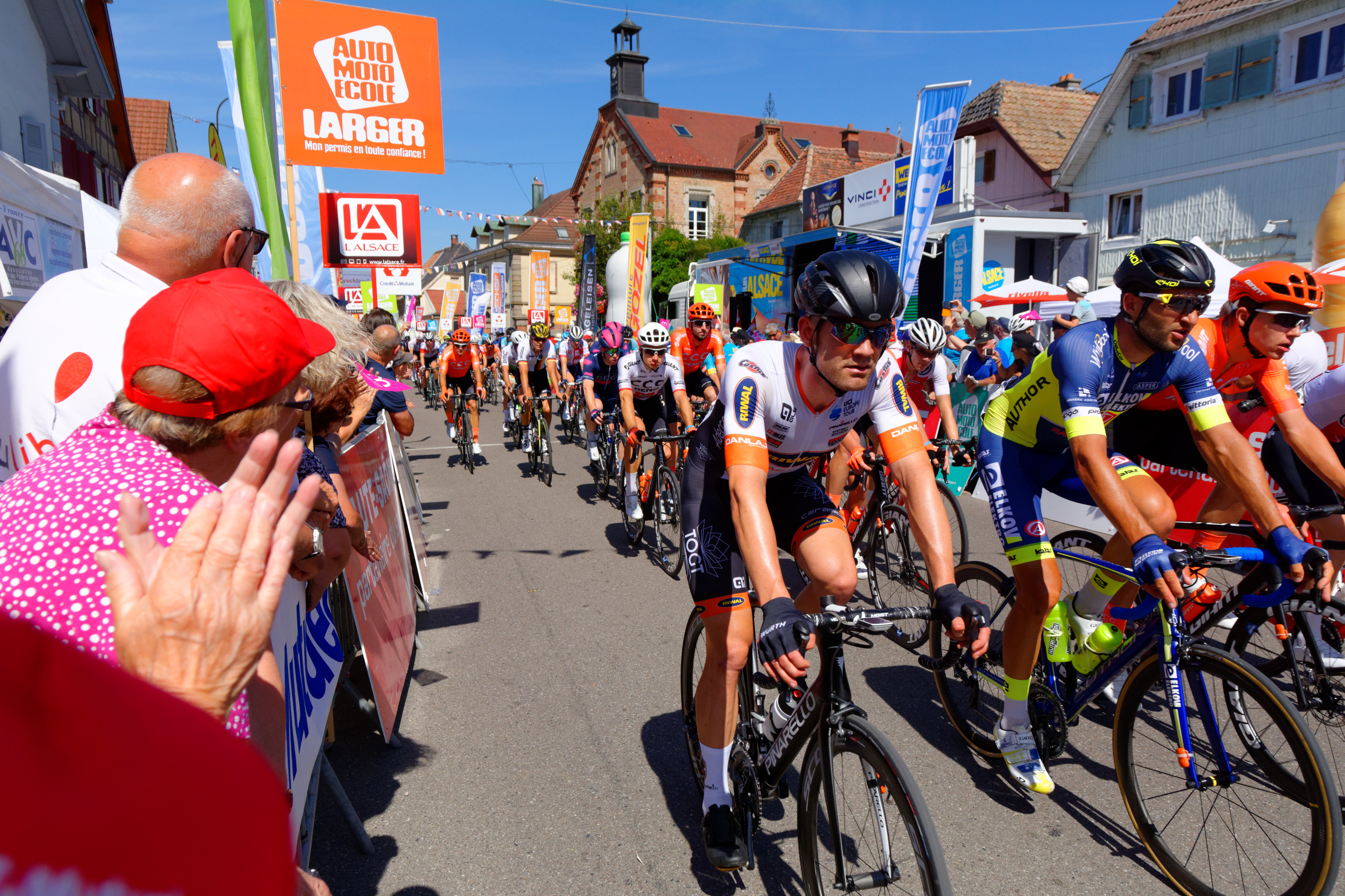 Personality rights warningAlthough this work is freely licensed or in the public domain, the person(s) shown may have rights that legally restrict certain re-uses unless those depicted consent to such uses. In these cases, a model release or other evidence of consent could protect you from infringement claims.